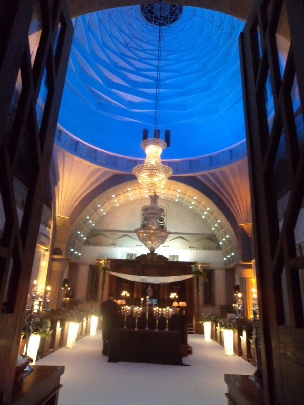 The great sephardic synagogue in Tel-Aviv